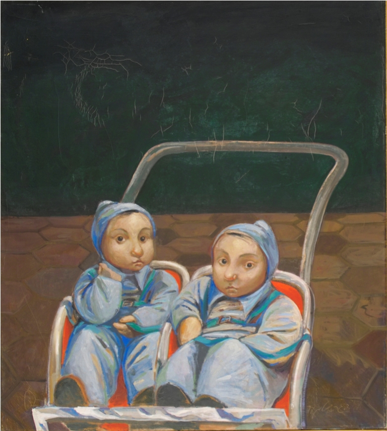 A work by Israeli artist David Gerstein